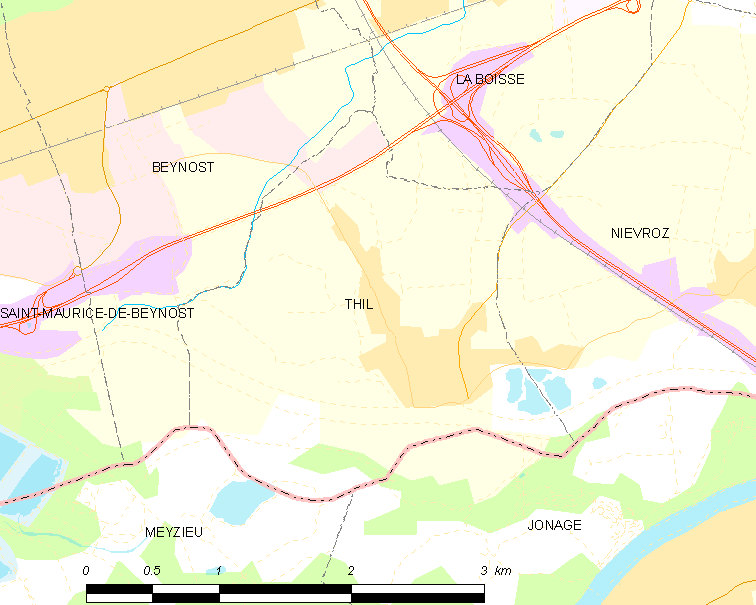 Map of French commune: Thil Map commune FR insee code 01418.png